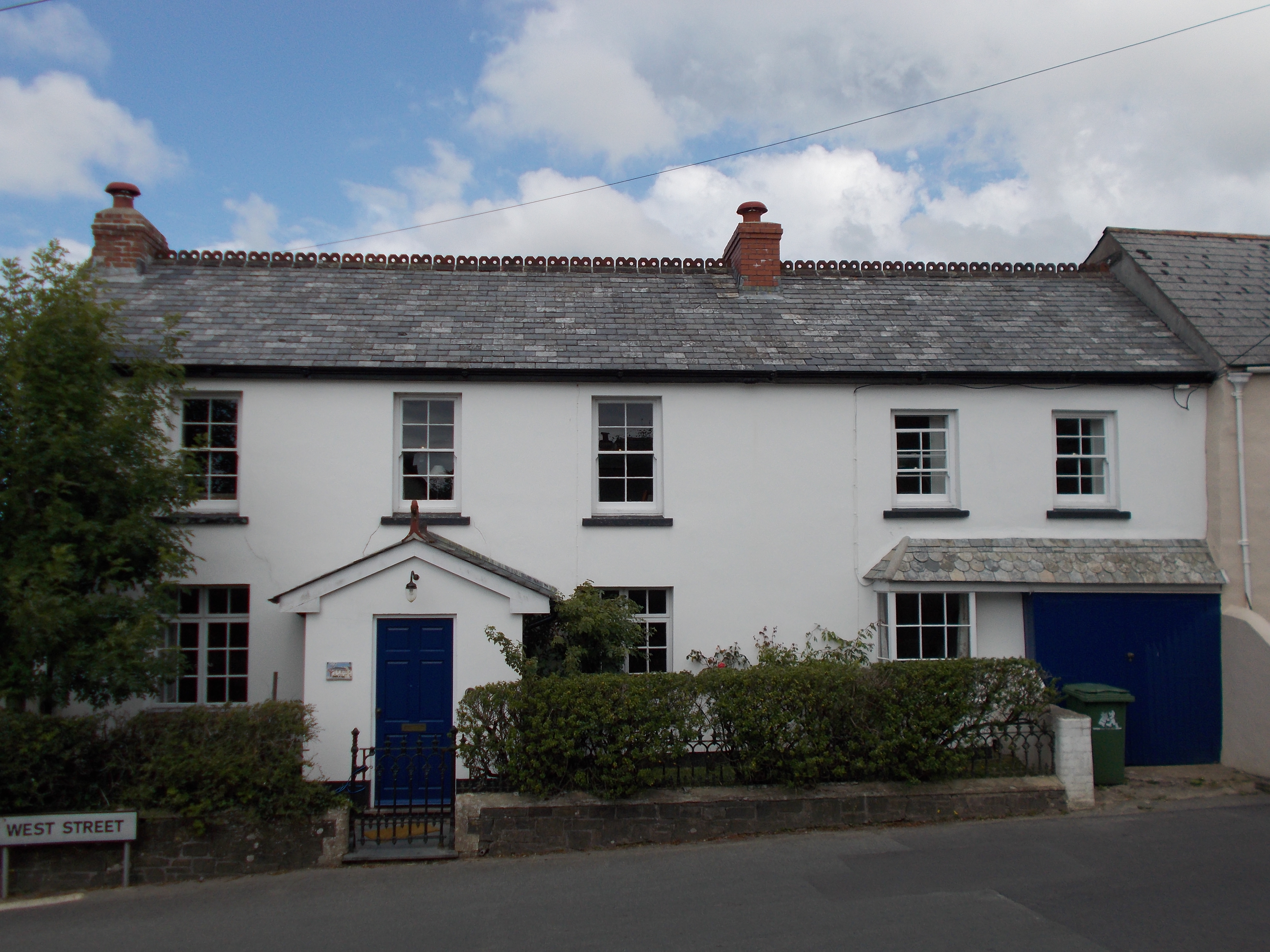 Mary Norton spent the final years of her life in this house in Hartland, Devon, England